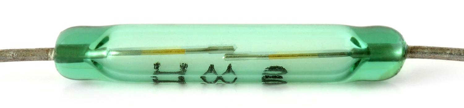 This image shows an electrical reed switch.